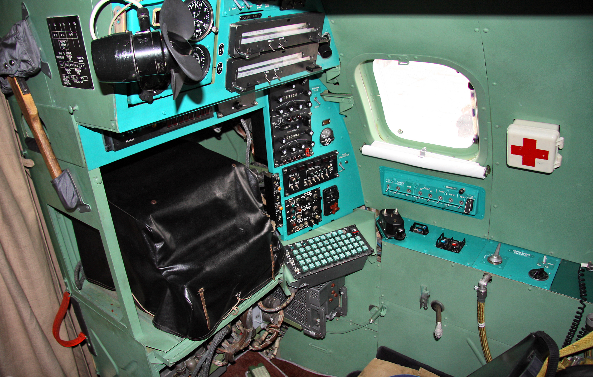 Cockpit of Tupolev Tu-95MS strategic bomber, communications system operator panel